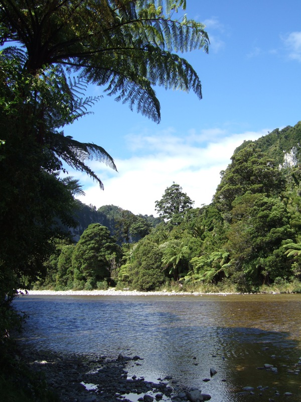 Fox River, in the Buller District of New Zealand